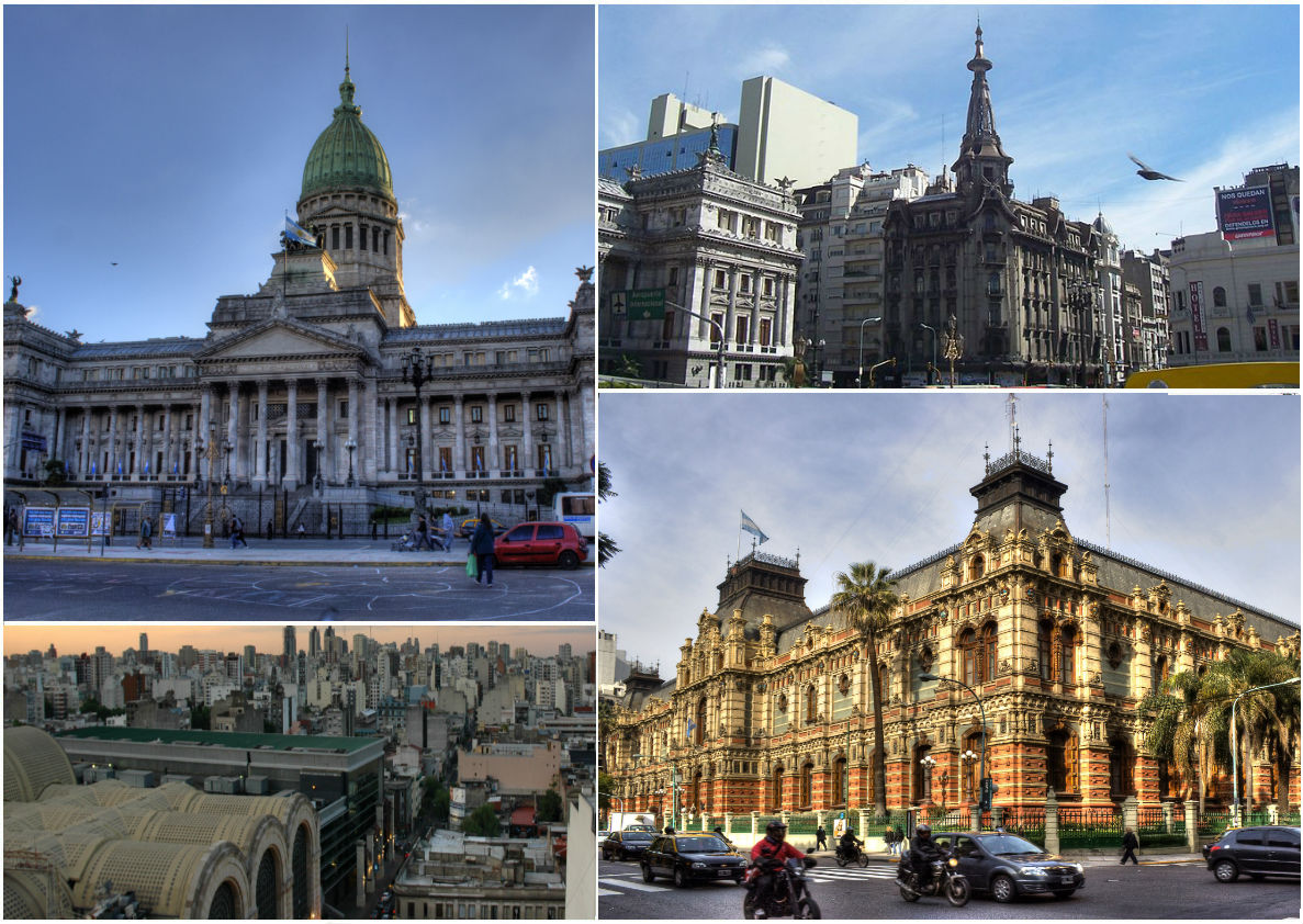 Photo montage of the Buenos Aires district of Balvanera